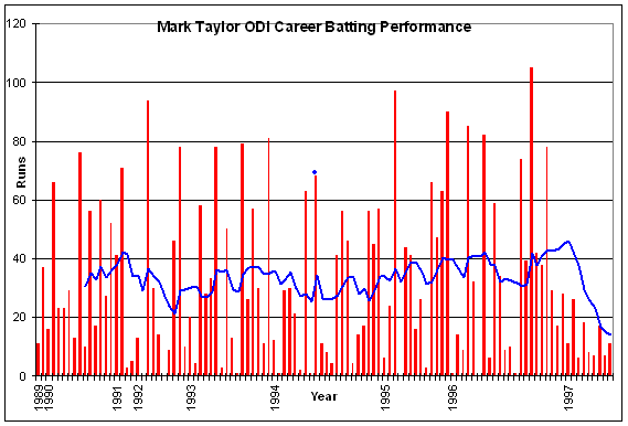 ODI batting chart for Mark Taylor (cricketer). Blue line is an average for ten most recent innings, blue dots are not outs. Bars are runs scored